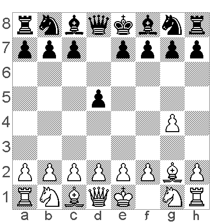 chess diagram Grob gambit Source: CBlight + my processing